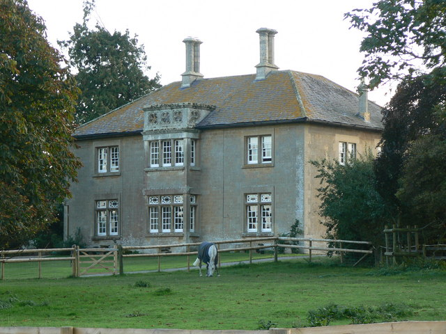 Day House Farmhouse, Day House Lane, Swindon As far as is known this imposing, but possibly only Victorian, house remains in private ownership and has not been turned into an institution. Update August 2009: for an engraving of this house the 1890s please